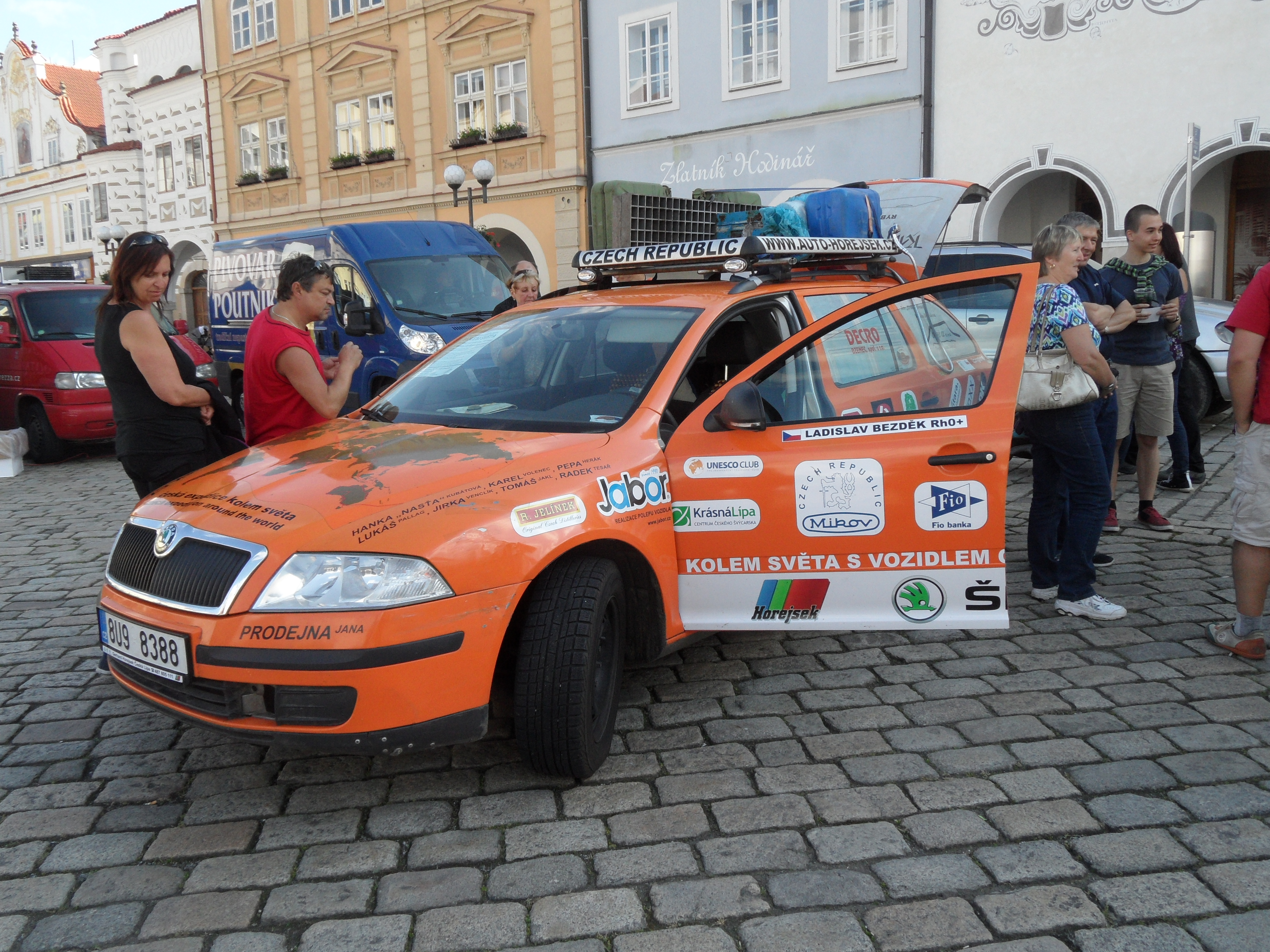 Festival Pelhřimov – the City of Records 2017, Afternoon Programme: the largest trip around the world by car (127.843 km). Pelhřimov District, the Czech Republic.